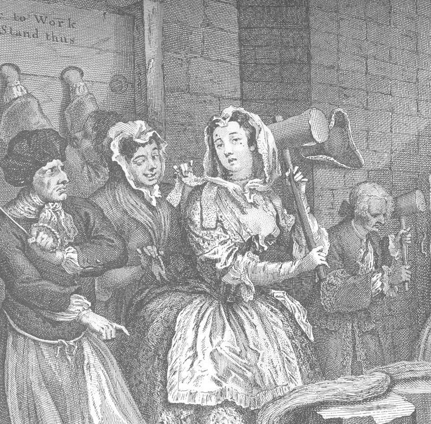 Crop of Hogarth-Harlot-4.png